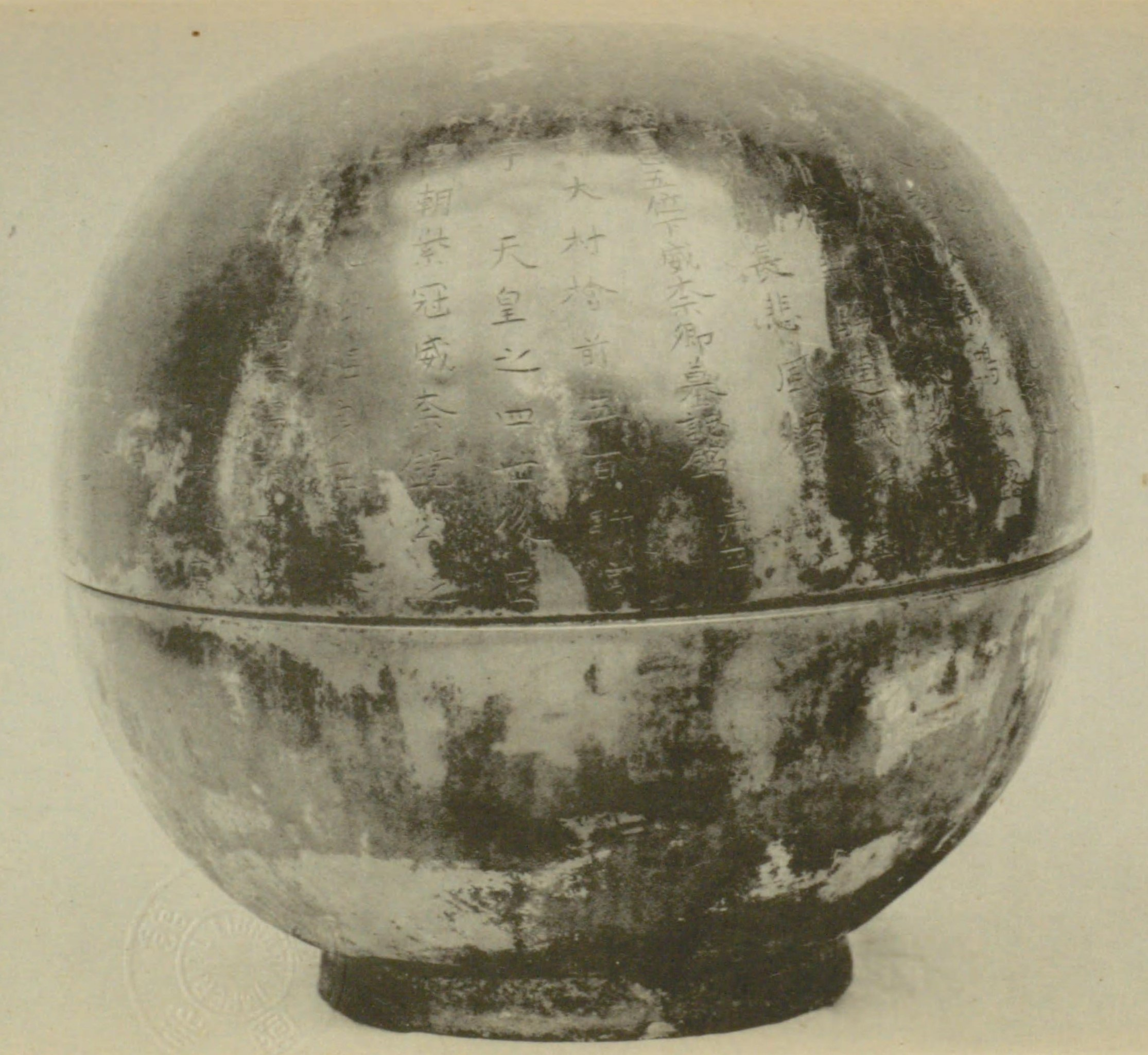 The bronze cinerary urn of Ina no Ōmura made in 707 at Shitennoji. A National Treasure of Japan.